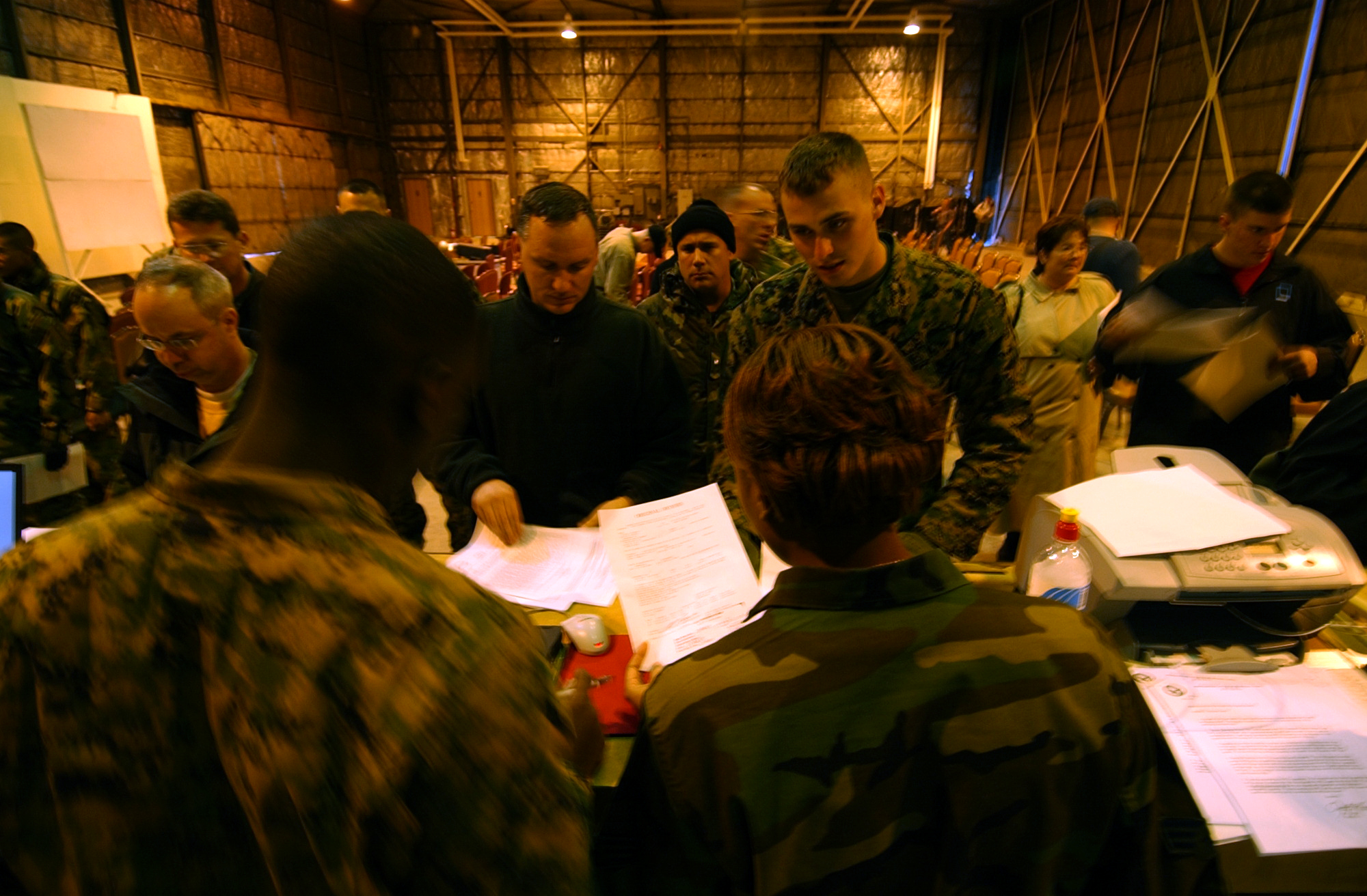 Osan Air Force Base, Korea (Mar. 13, 2005) - Joint Reception Personnel assigned to Osan Air Force Base, Korea, in-process Soldiers, Sailors, Marines and Airmen from various commands in preparation for Reception, Staging, Onward movement, and Integration/Foal Eagle exercises (RSO&I/Foal Eagle). RSO&I is a complex multi-phase exercise conducted annually, tailored to train, test, and demonstrate United States and Republic of Korea force projection and deployment capabilities. Foal Eagle exercise runs simultaneously and trains in all aspects of Combined Forces Command's mission. U.S. Navy photo by Photographer's Mate 2nd Class Sandra M. Palumbo (RELEASED)